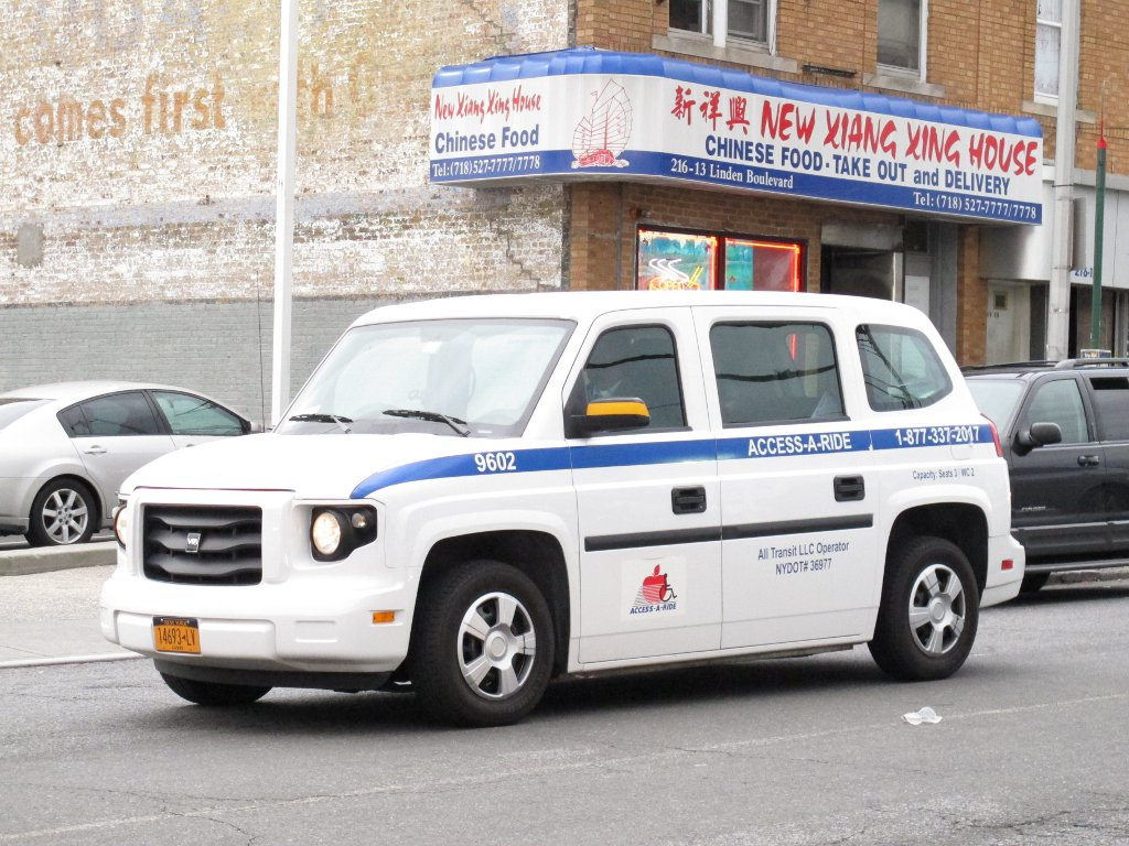 An MTA VPG MV-1 paratransit cab operates through Cambria Heights in Queens, in NYC.